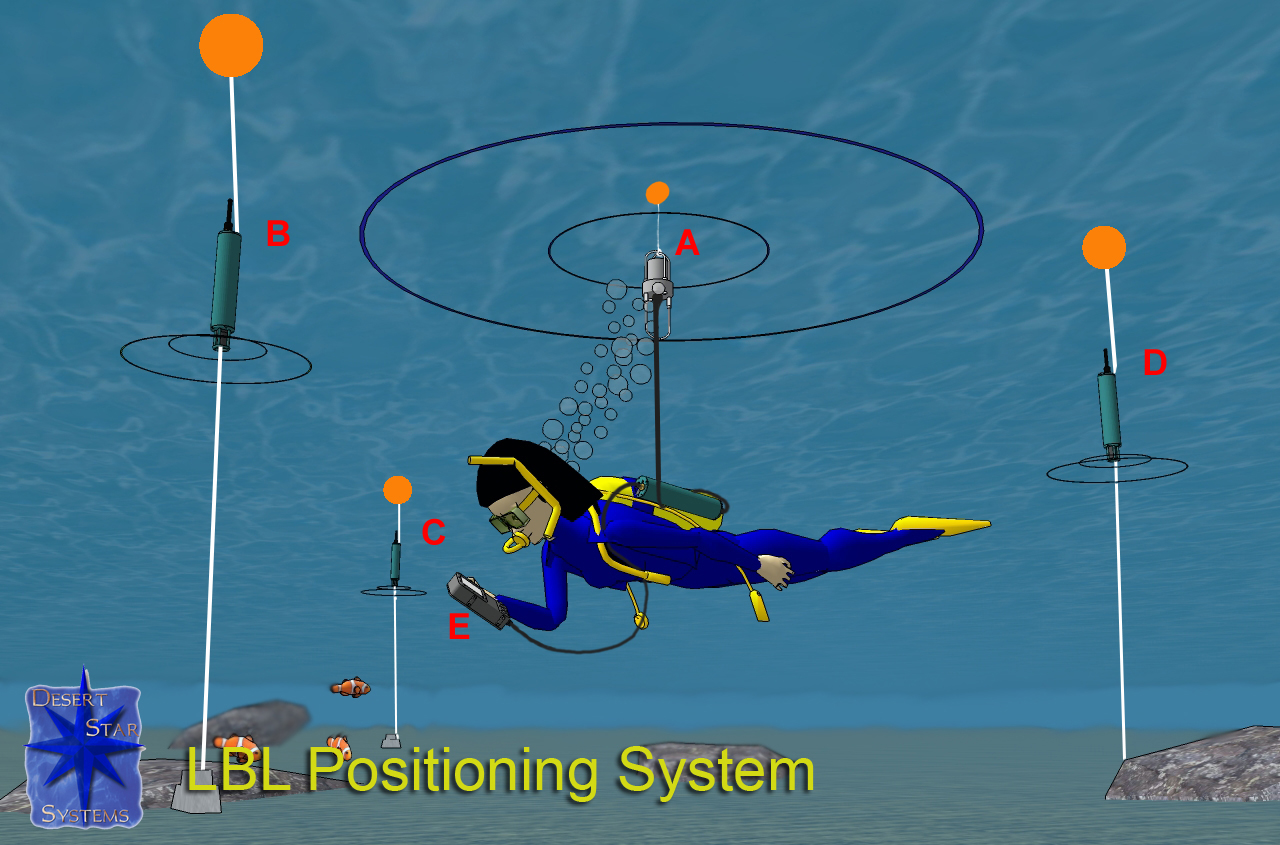 Method of operation of a long-baseline (LBL) underwater acoustic positioning system for divers. A diver mounted transponder (A) emits an acoustic signal or 'ping' that travels to baseline transponders (B, C, D). The transponder replies travel back to (A), which measures the two-way signal run time. Using a measured or assumed speed of sound, the corresponding distances are determined. These distance measurements are sent to the diver terminal (E) which uses a search algorithm or geometric computations to establish the diver position. Position data and related information such as position accuracy, depth, distance and bearing to a waypoint are displayed on a screen similar to that of a handheld GPS receiver.